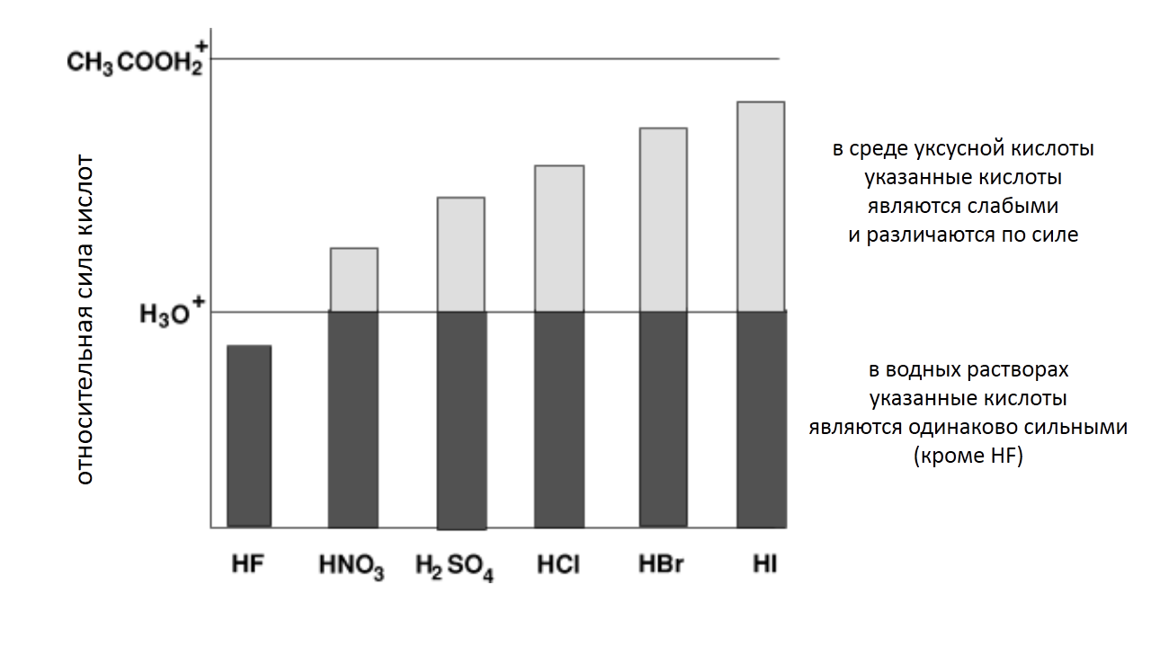 Acid strength in different solvents